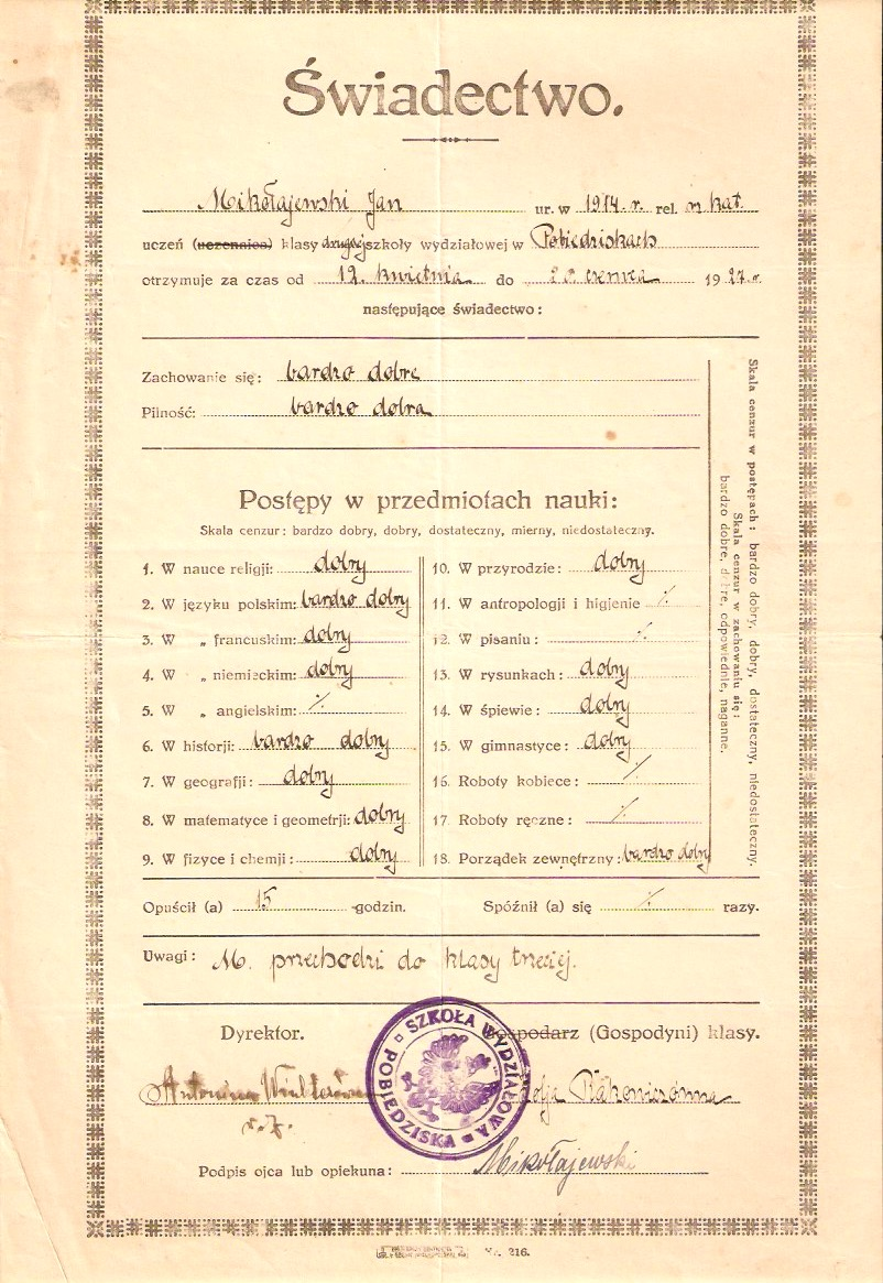 Jan Mikołajewski's report card from school in Pobiedziska